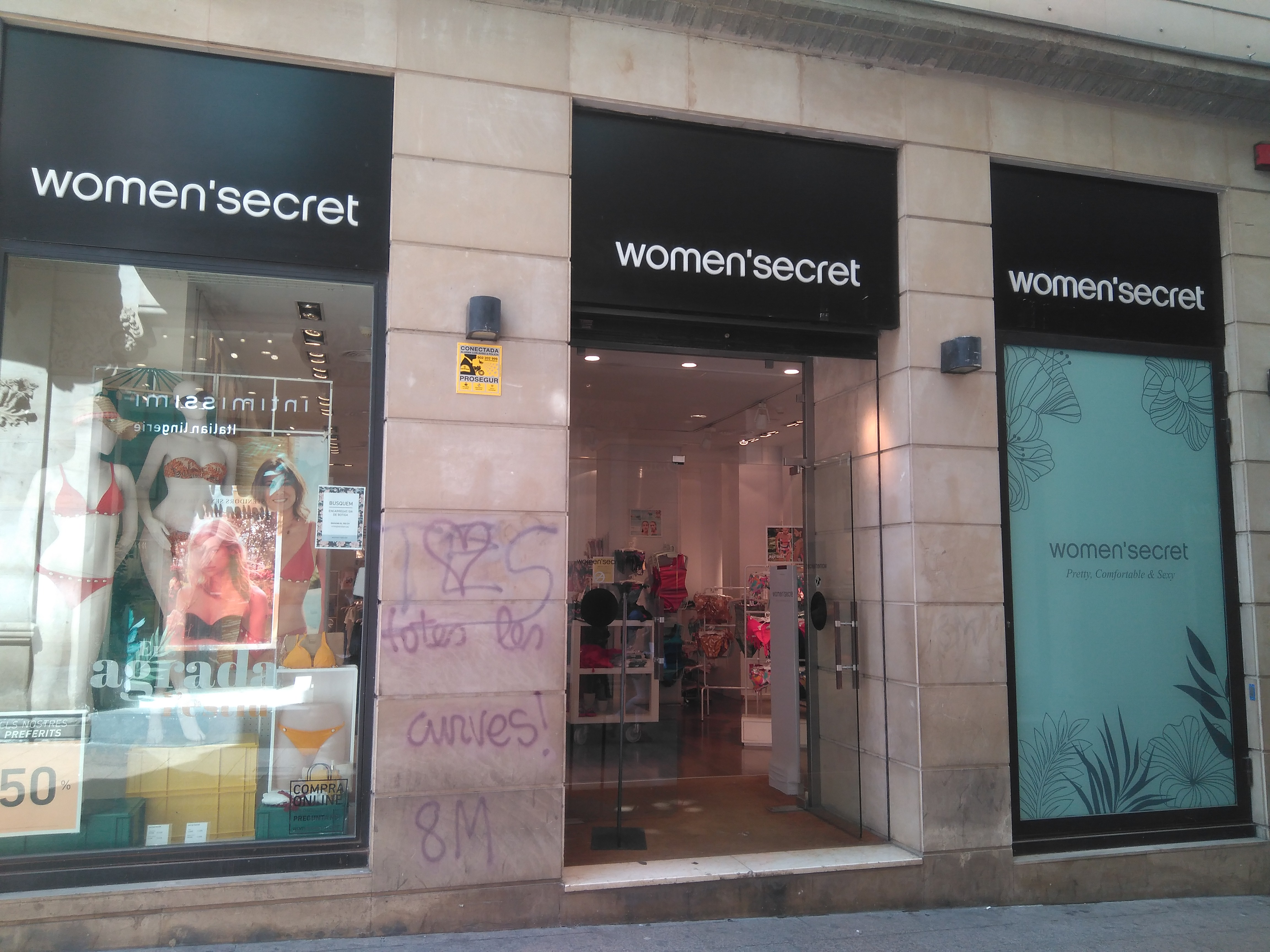 Location of the Urriza bookshop in Lleida, now closed.